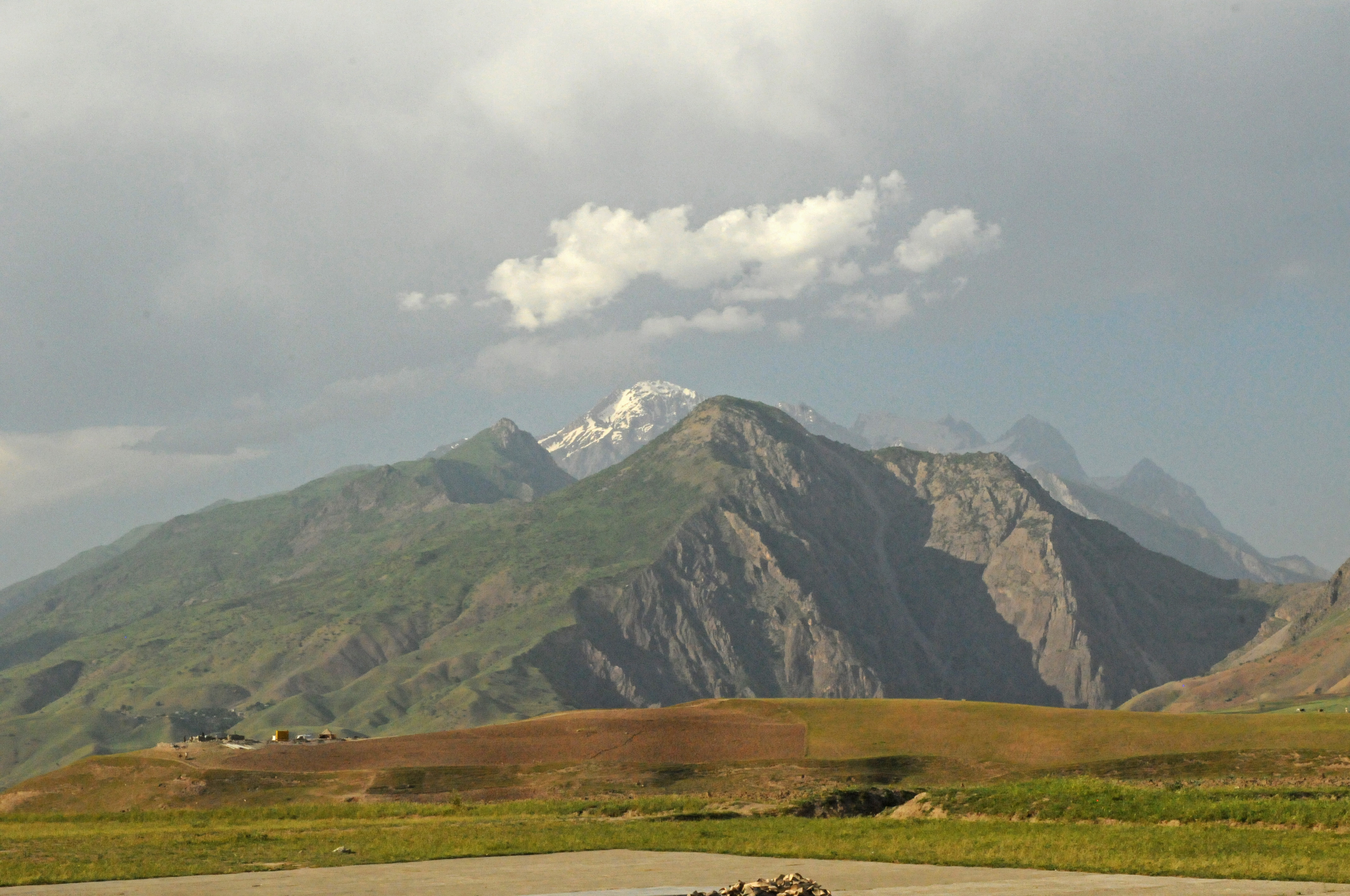 The view near the village of Khwahan, Badakhshan Province, Afghanistan, June 3, 2012. (37th IBCT photo by Sgt. Kimberly Lamb) (Released)